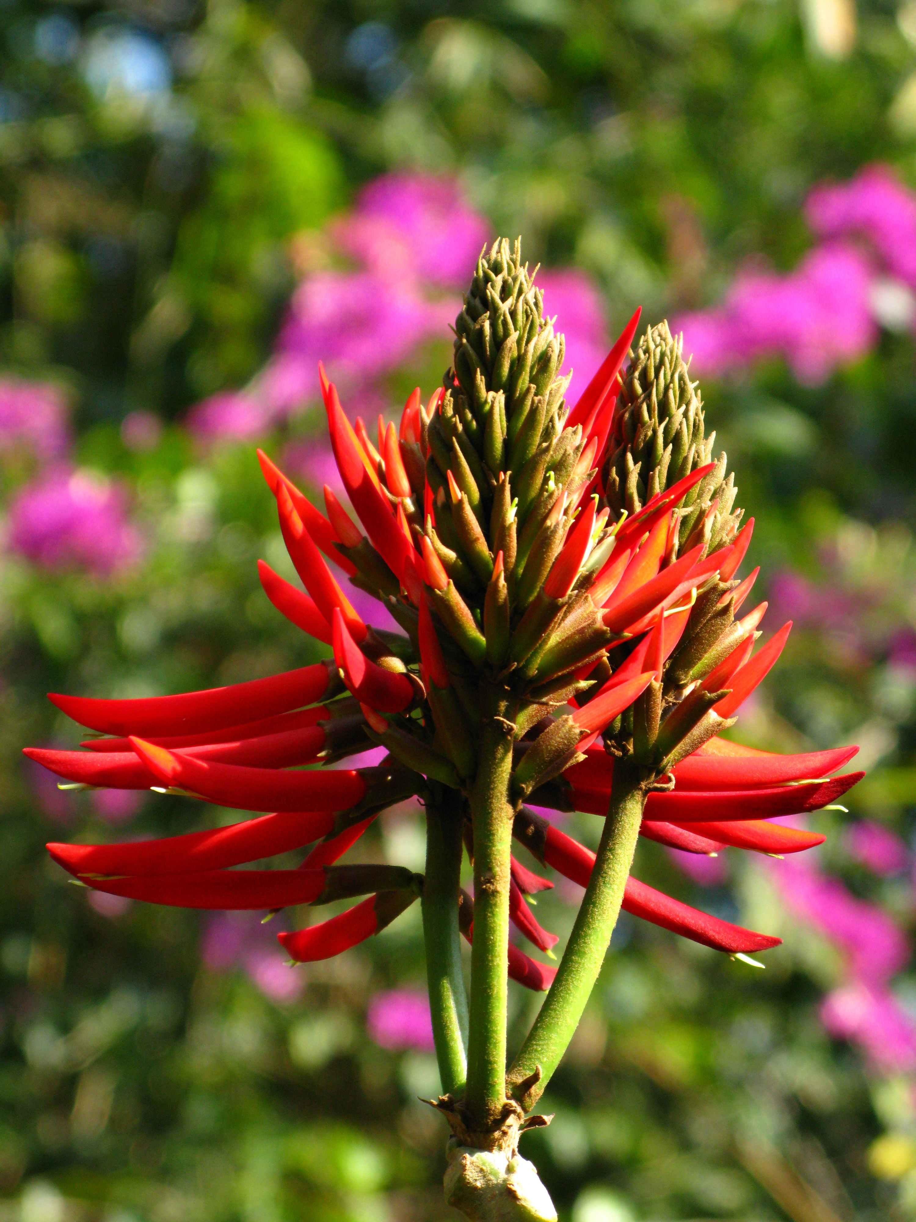 Erythrina speciosa in Hong Kong.